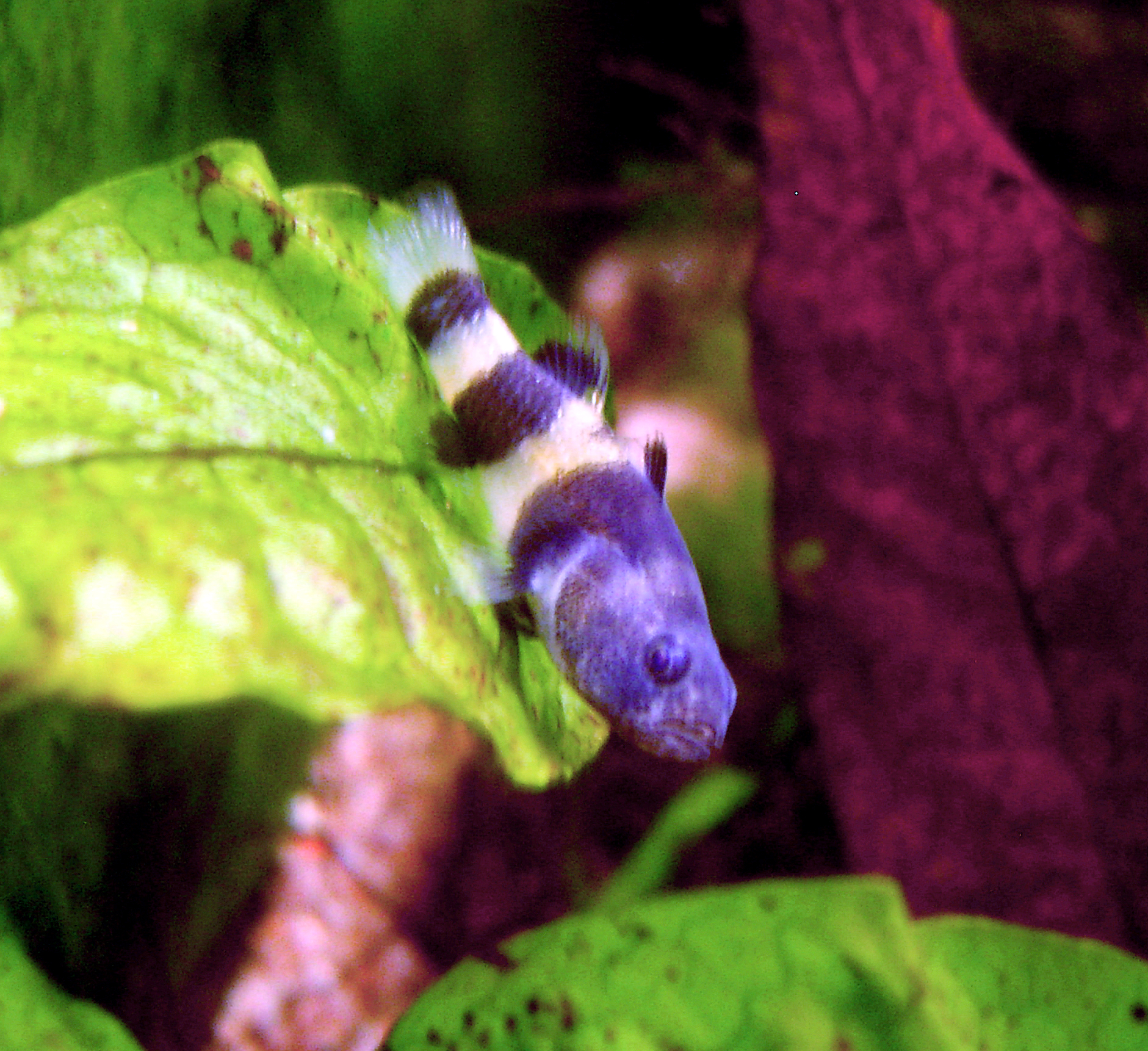 Brachygobius xanthozona